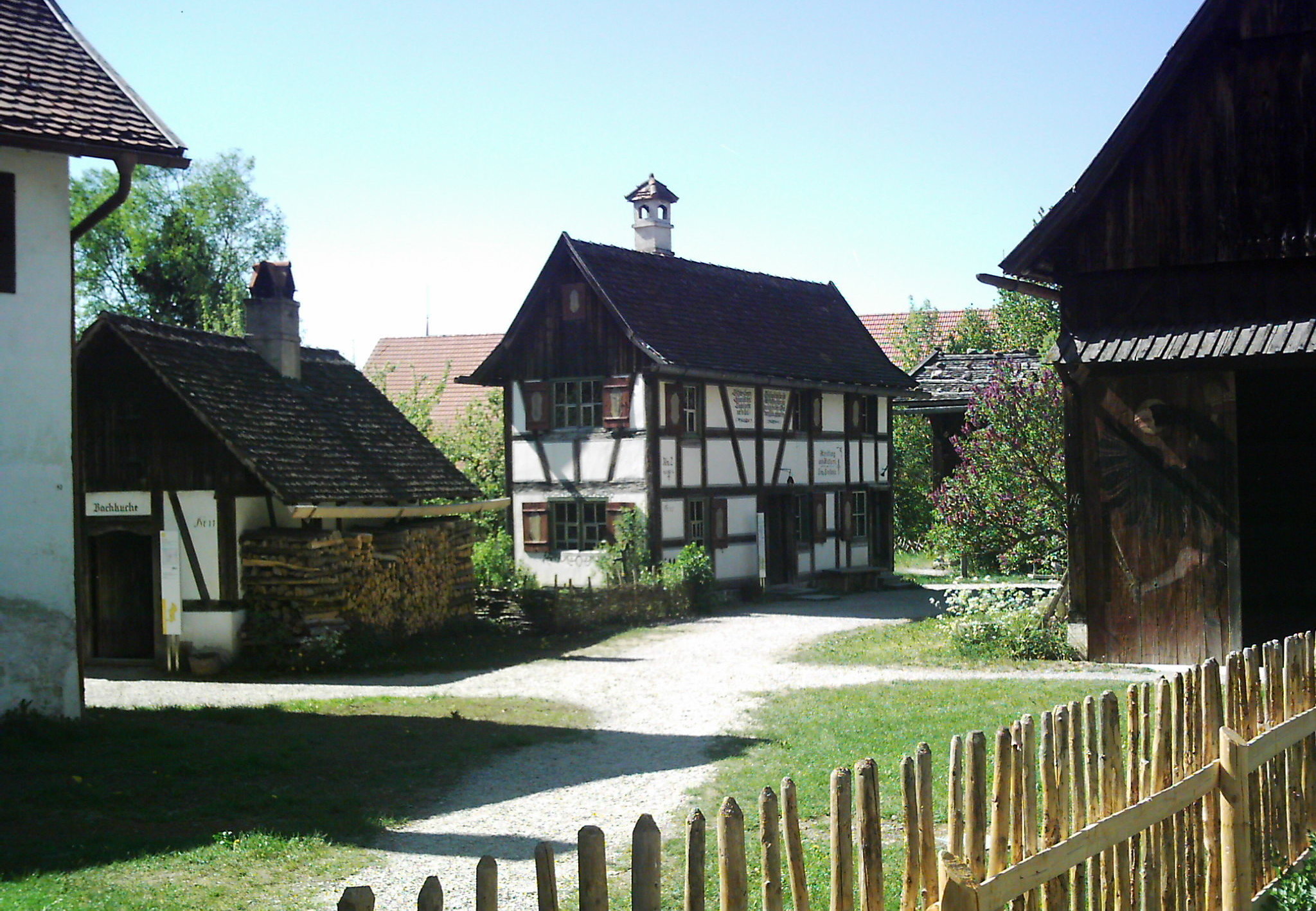 Illerbeuren, Ethnographic Museum of Rural Life in Swabia. Bakehouse (2nd half of 19th century) and retired farmer's house (1823, from left to right), both transferred from Woringen.